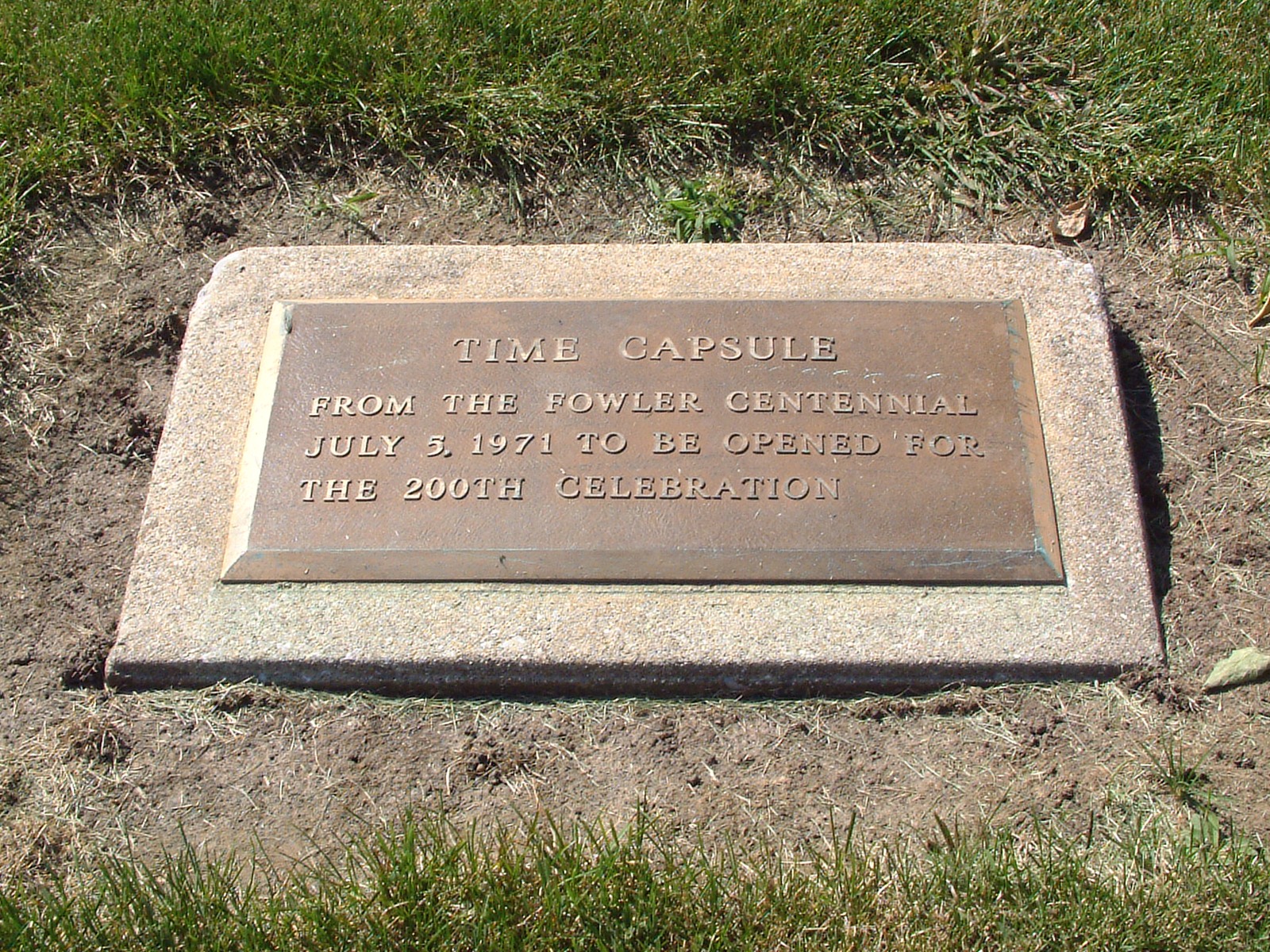 A time capsule on the grounds of the Benton County courthouse in Fowler, Indiana. Its inscription reads: Time capsule from the Fowler Centennial July 5, 1971 to be opened for the 200th celebration.